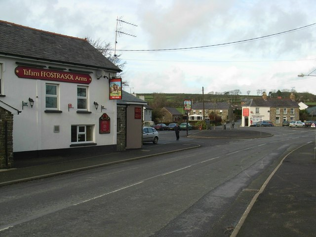 Tafarn Ffostrasol Arms On the junction of the B4571 & A486.